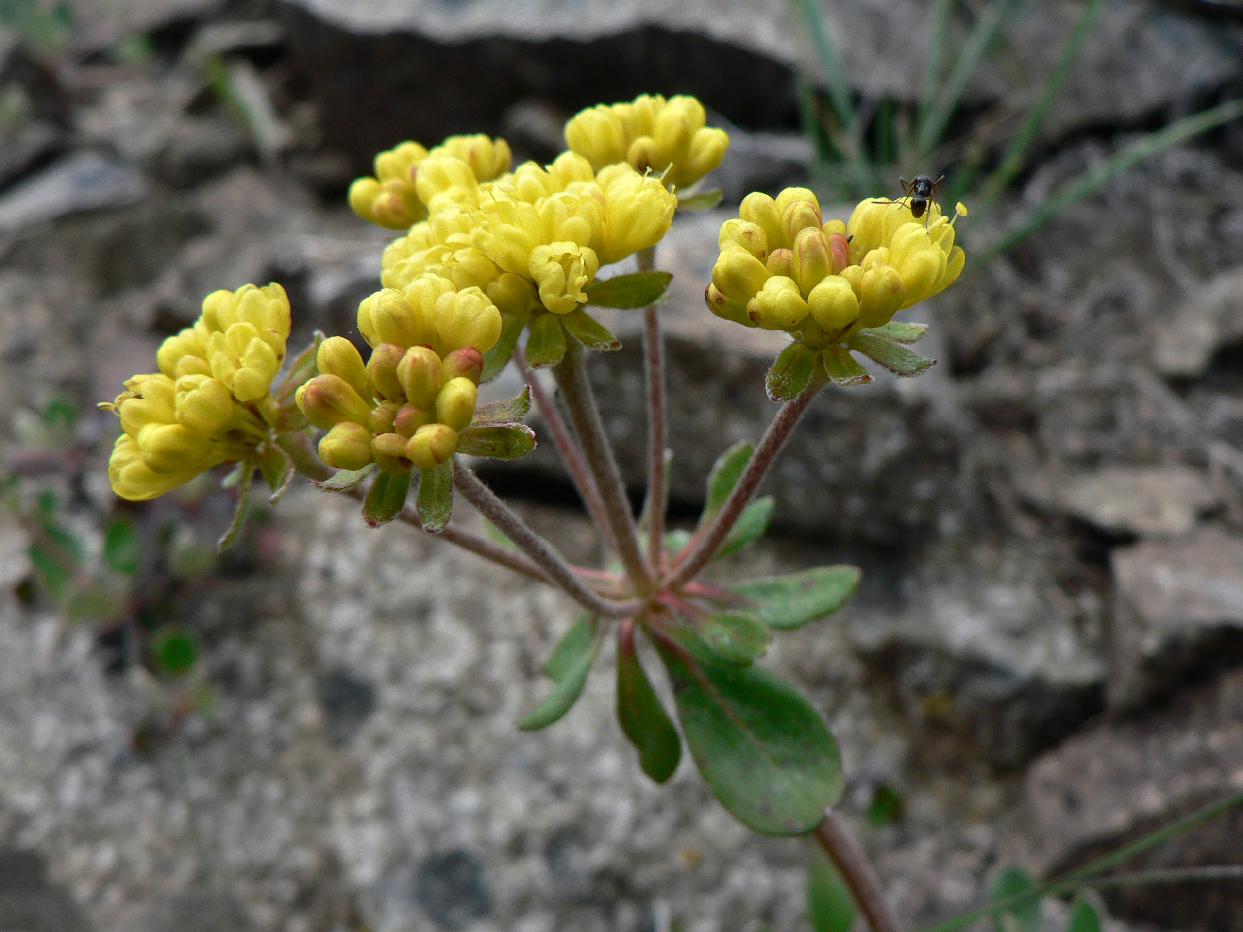 Sulphur-Flower Buckwheat, Sulfur Flower